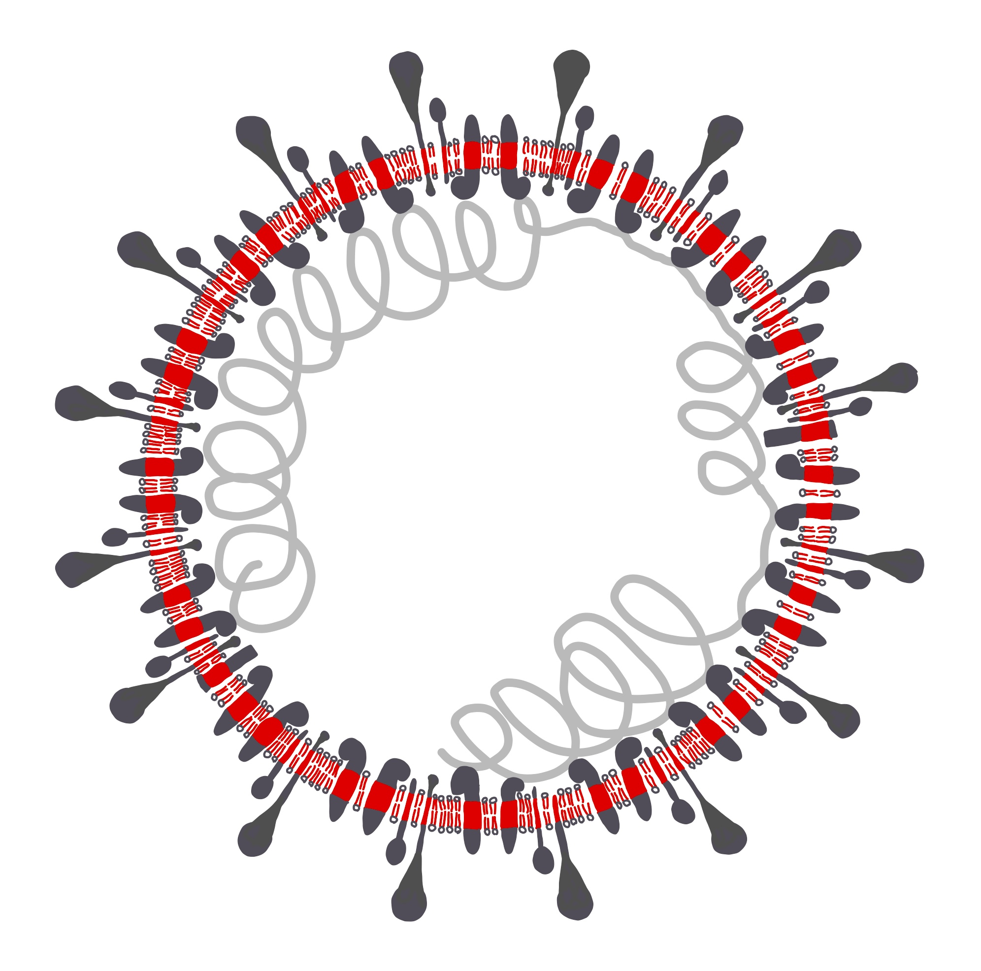 Illustration of a coronavirus. Detergents can stick to the parts drawn in red, releasing these parts and breaking up the virus.